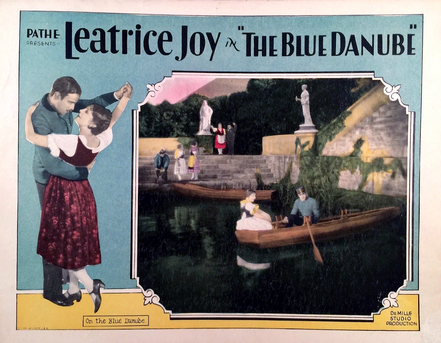 Lobby card for the American romantic drama film The Blue Danube (1928). There are no copyright marks on the card. At lower left is Country of origin USA.